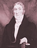 Photo or painting of Dr William Redfern (1774-1833)